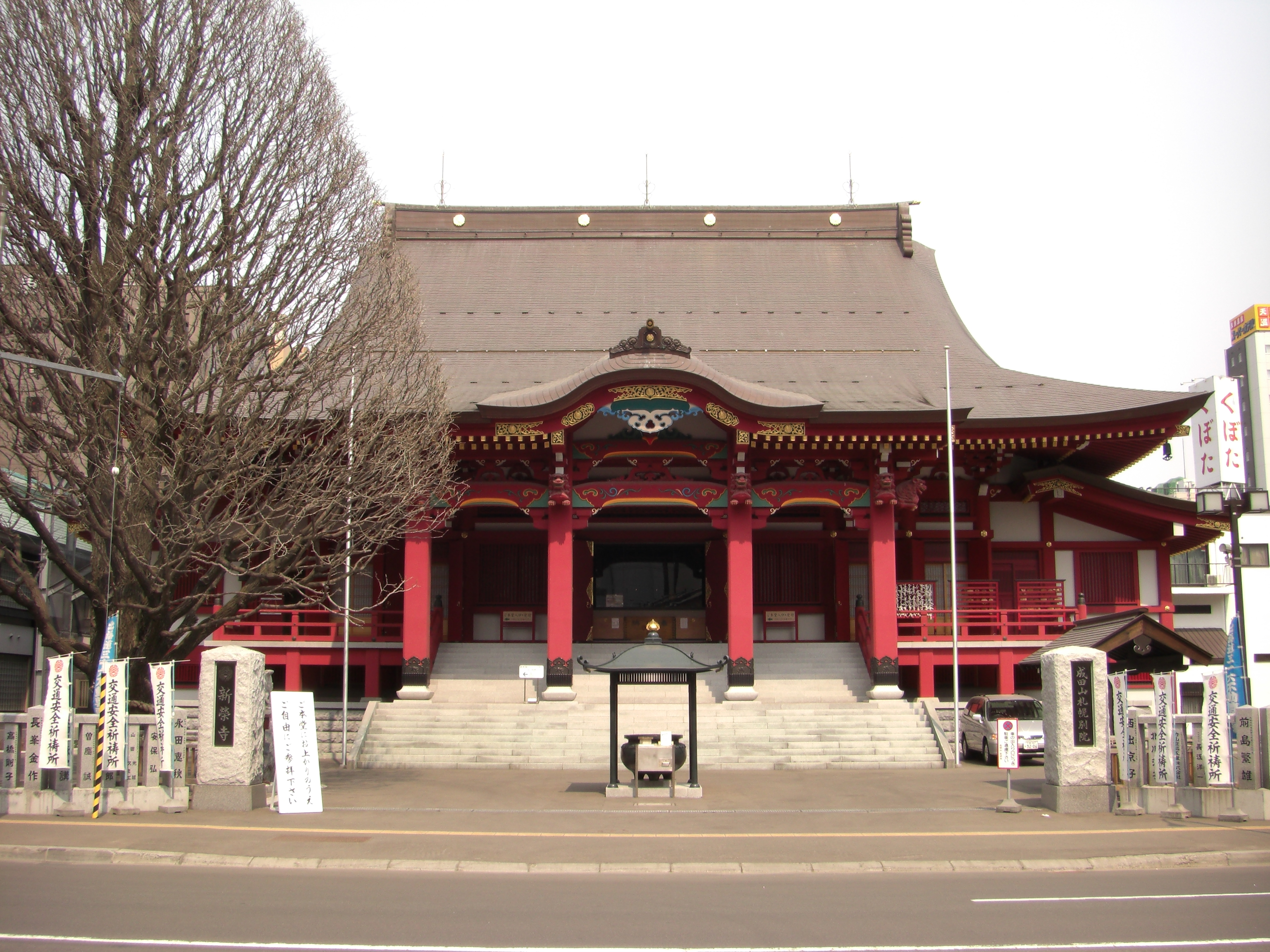 Naritasan Sapporo Betsuin Shineiji Temple (Sapporo, Hokkaido, Japan)